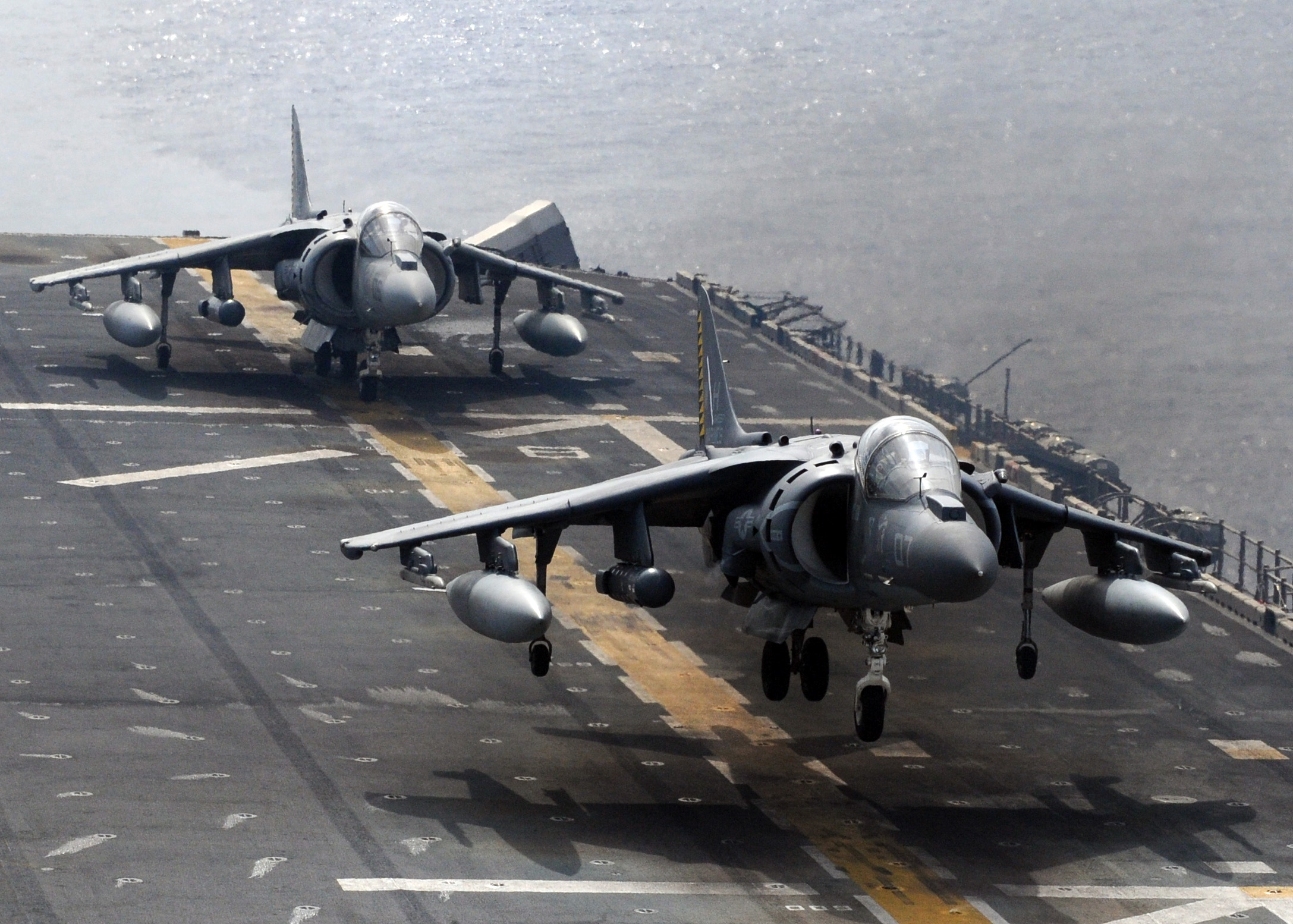 PHILIPPINE SEA (Sept. 17, 2010) An AV-8B Harrier jet aircraft assigned to Marine Attack Squadron (VMA) 542 prepares to land aboard the forward-deployed amphibious assault ship USS Essex (LHD 2). Essex is part of the forward-deployed Essex Amphibious Ready Group and is participating in Valiant Shield 2010, a joint-service exercise designed to enhance interoperability between U.S. forces. (U.S. Navy photo by Mass Communication Specialist 3rd Class Casey H. Kyhl/Released)